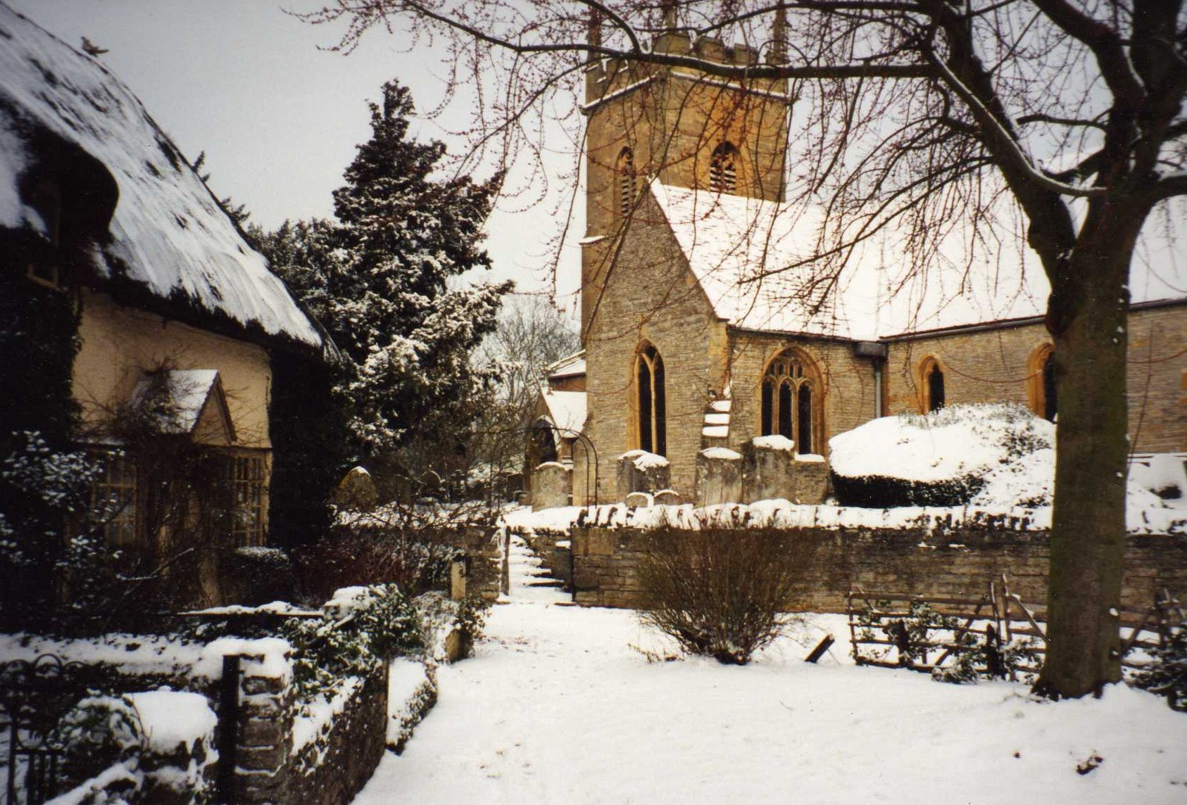 I took this in 1993